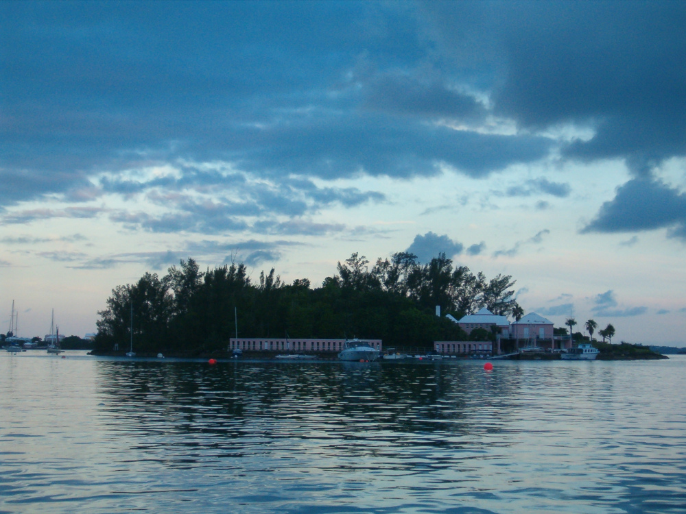 White's Island, in Hamilton Harbour, part of the parish of Paget in the British Overseas Territory of Bermuda. The island has been used for a variety of purposes over the centuries, including as the US Navy's Base number 24 during the First World War.